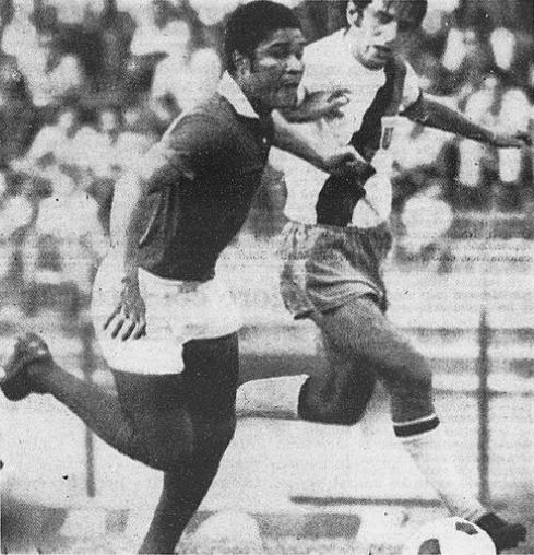 Genoa (Italy), "Luigi Ferraris" Stadium, August 23, 1971. From left to right: Benfica's striker Eusébio versus Genoa's Giorgio Bittolo, in the friendly match between Genoa 1893 and S.L. Benfica (1-2).